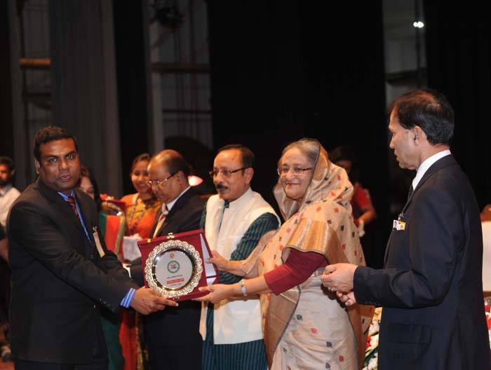 MD Noor E Alam Awarded by Prime Minister